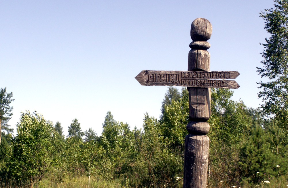 Girnikai fill fort, Šiauliai district, Lithuania